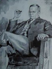 Gerrit Willem Knap by Josina Knap